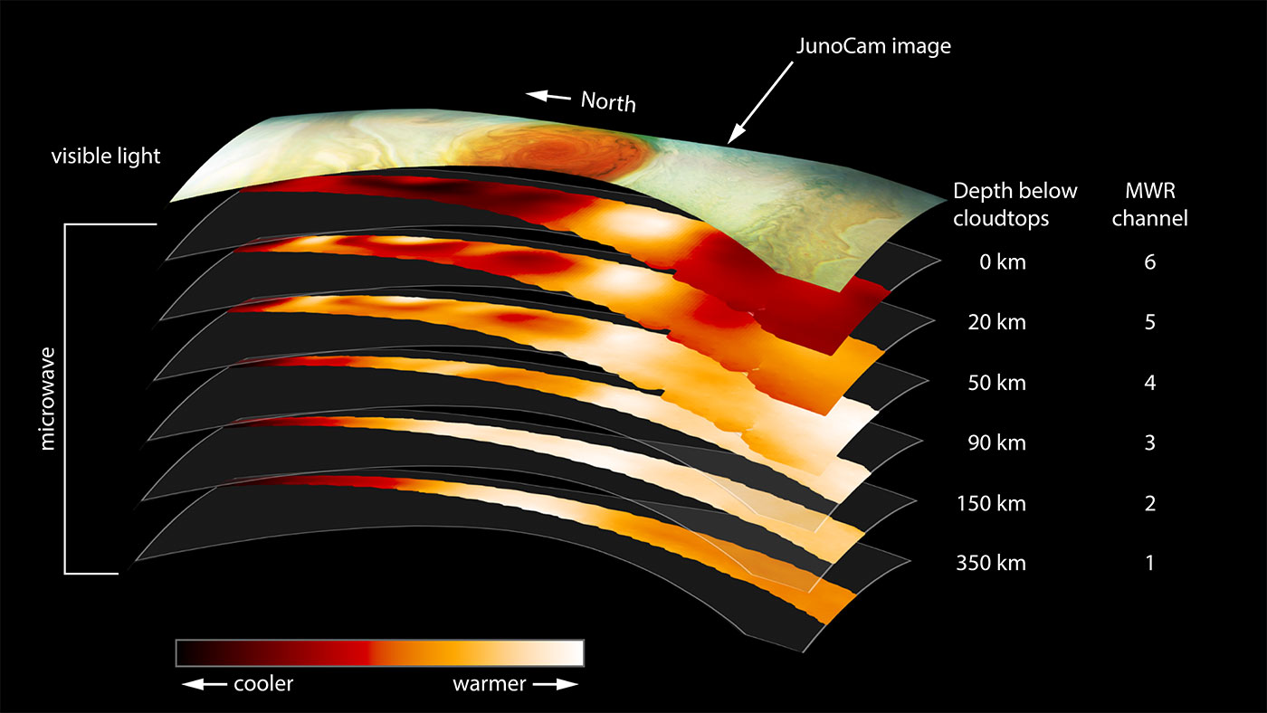 Jupiter's Great Red Spot, using data from the microwave radiometer instrument onboard NASA's Juno spacecraft. Each of the instrument's six channels is sensitive to microwaves from different depths beneath the clouds